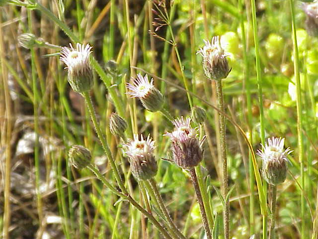 Species: Erigeron acre Family: Compositae Image No. 1